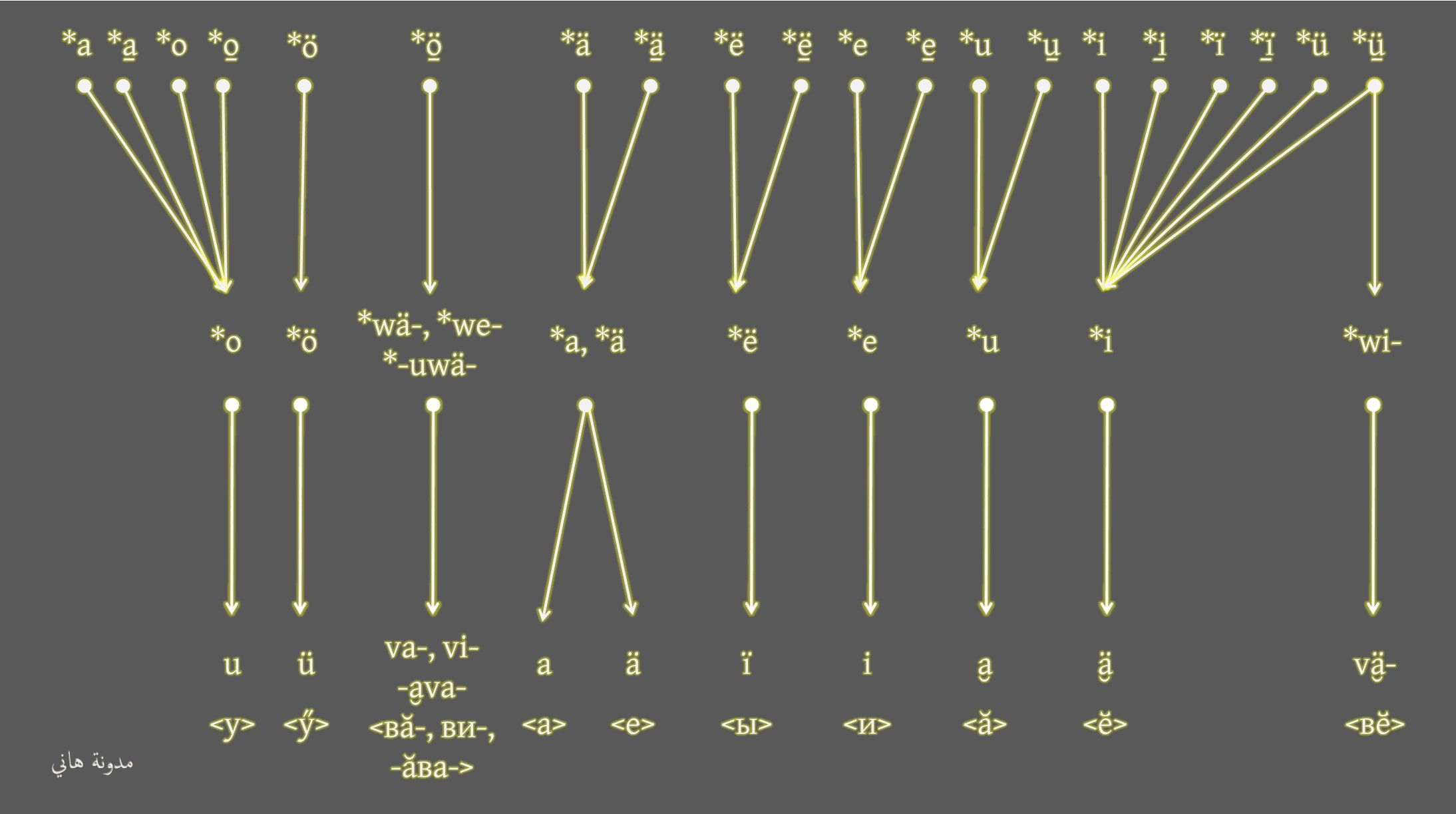 A possible scheme for the diachronic development of Chuvash vowels. Not all the asterisked sounds are necessarily separate phonemes.